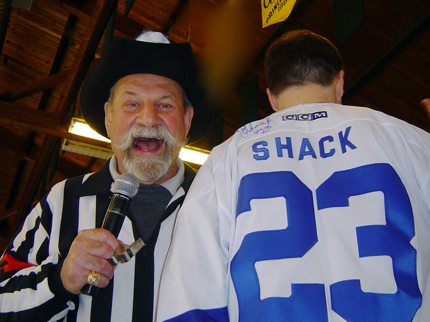 Eddie hamming it up with one of his many fans, while doing charity events with the NHL oldtimers. Taken in Prince Albert, Sask.